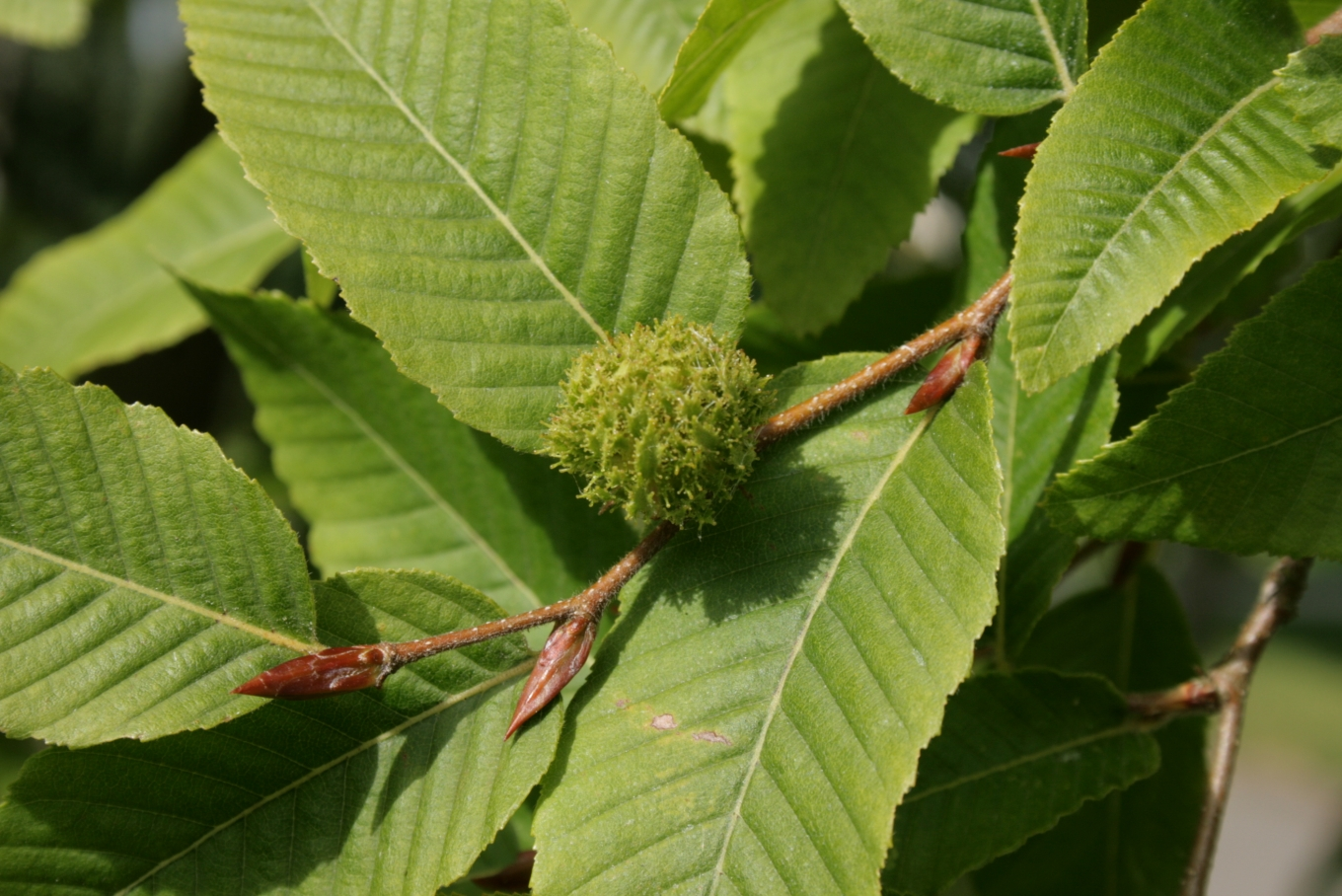 Nothofagus alpina: Fruits